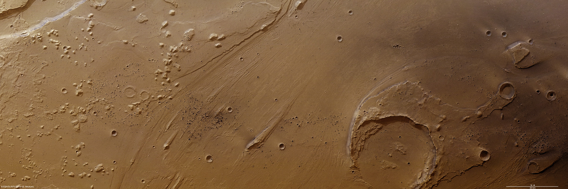 The crater Oraibi located in Ares Vallis imaged by the HRSC instrument aboard Mars Express.